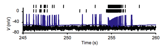 Modeled oxytocin-excitable neuron recording. Upper black rug plots show time of release of oxytocin to the connected dendritic compartments, black trace is the impact of EPSPs and IPSPs and the blue trace shows the dynamic thresholding. Originally published in Rossoni, E (2008). "Emergent synchronous bursting of oxytocin neuronal network". PLoS Computational Biology 4 (7): 3410.